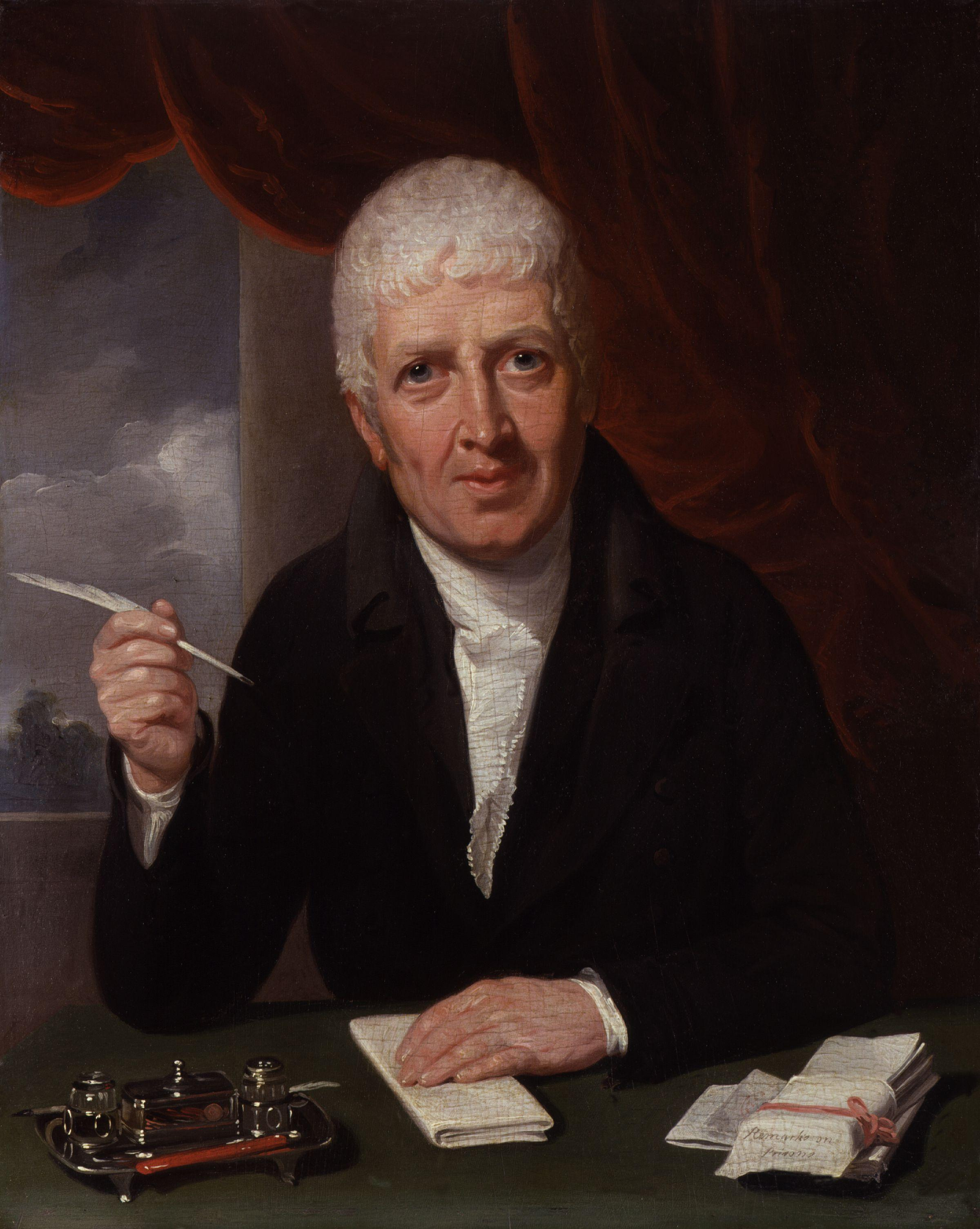 A painted portrait of James Neild (4 June 1744 – 16 February 1814), a British prison reformer.